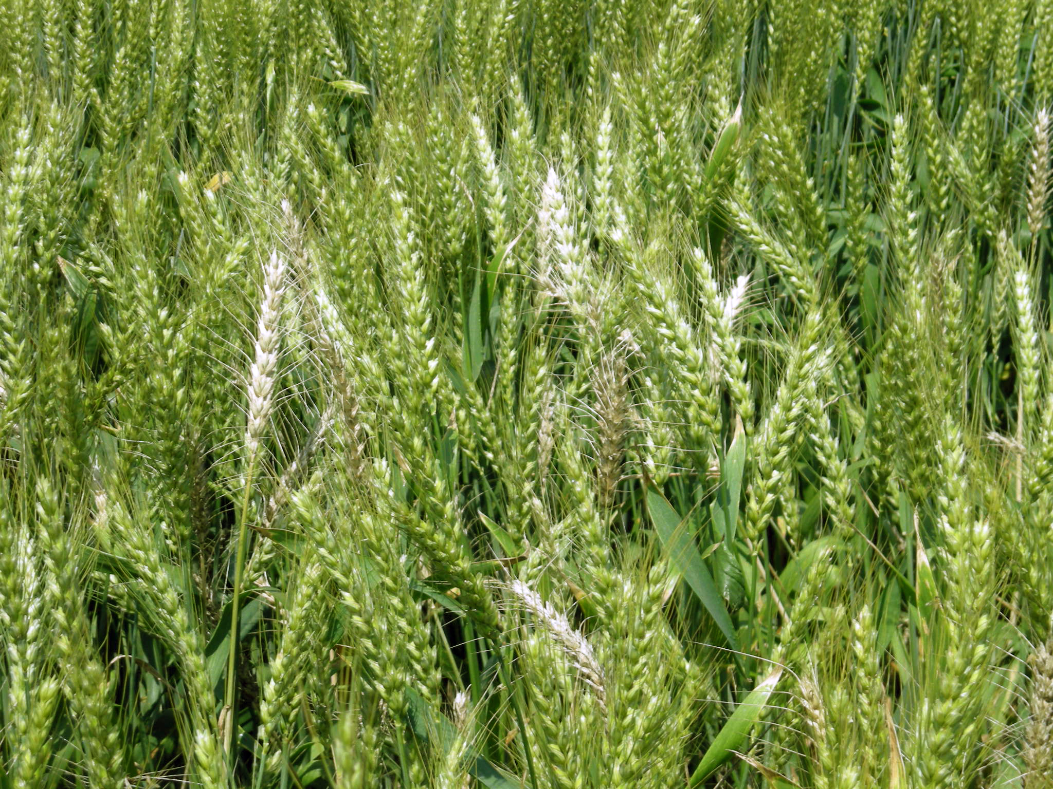 CSIRO researchers have identified wheat and barley lines resistant to Crown Rot – a disease that costs Australian wheat and barley farmers 9 million in lost yield every year. Crown Rot, which is a chronic problem throughout the Australian wheat belt, is caused by the fungus Fusarium. Dr Chunji Liu and his CSIRO Plant Industry team in Brisbane are using sophisticated screening methods to scan over 2400 wheat lines and 1000 barley lines from around the world to find the ones resistant the fungal disease. The wheat and barley lines showing resistance to Crown Rot are now being used in pre-breeding programs to incorporate the resistance into adapted varieties for delivery to the wheat breeding companies.